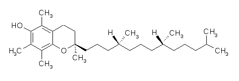 The RRR stereoisomer of alpha-tocopherol (vitamin E)